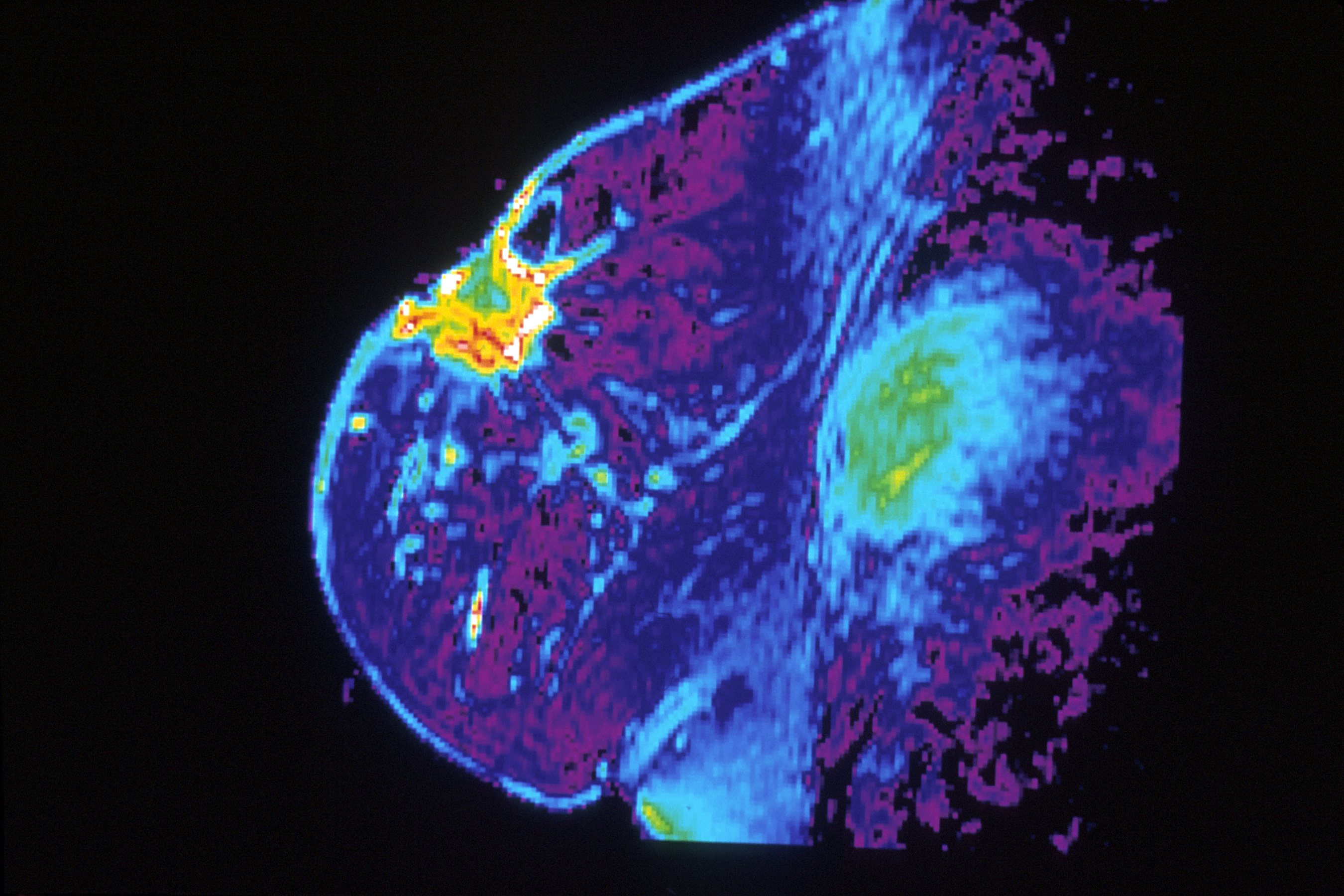 Title MRI of Breast Description Color-enhancement show magnetic resonance image (MRI) of individual breast. Topics/Categories Anatomy -- Breast Test or Procedure -- Imaging Procedures Type Color, Photo Source Dr. Steven Harmes. Baylor University Medical Center, Dallas Texas